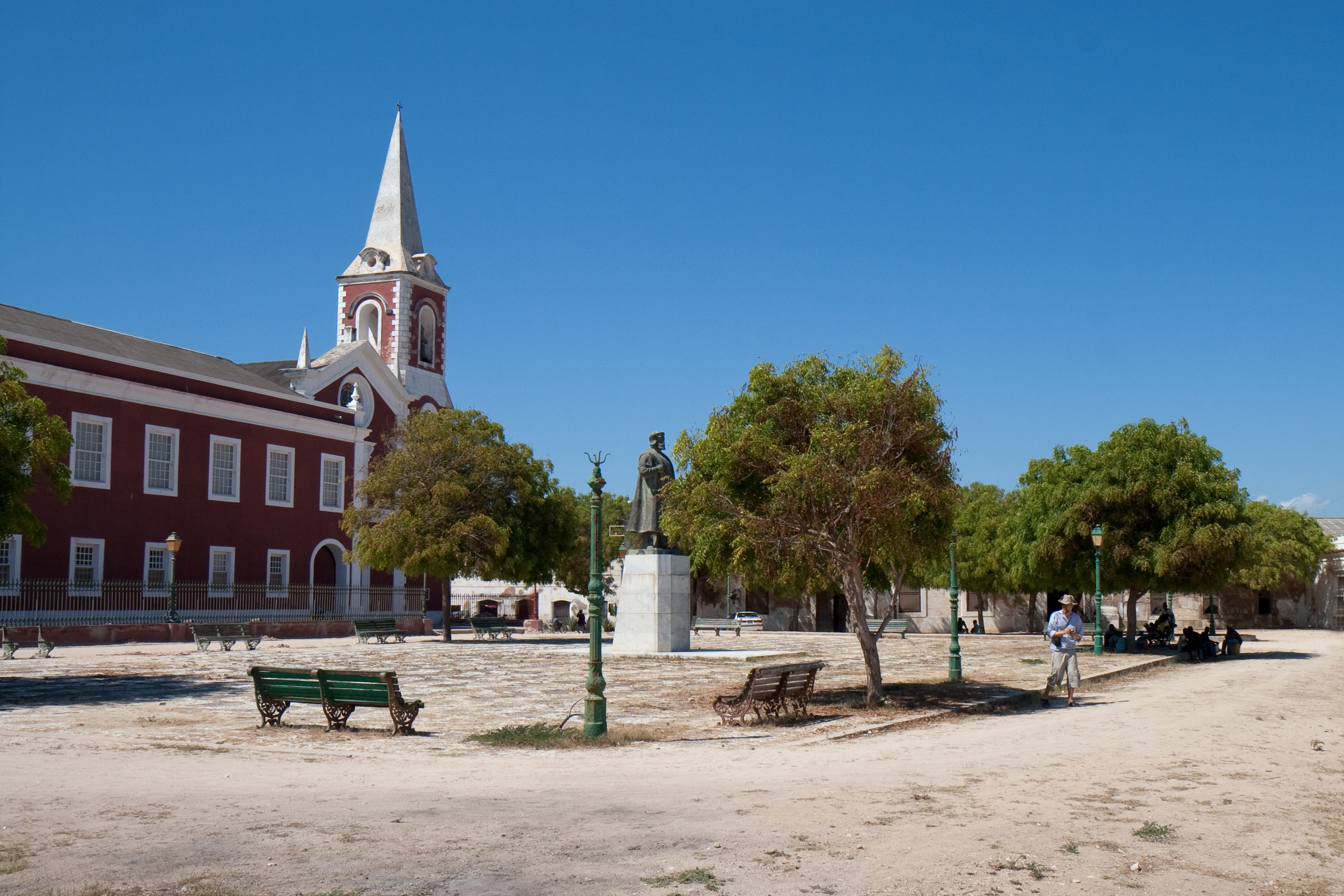 Statue of Vasco da Gama in front of the former governor's palace (originally Jesuit College of São Paulo)